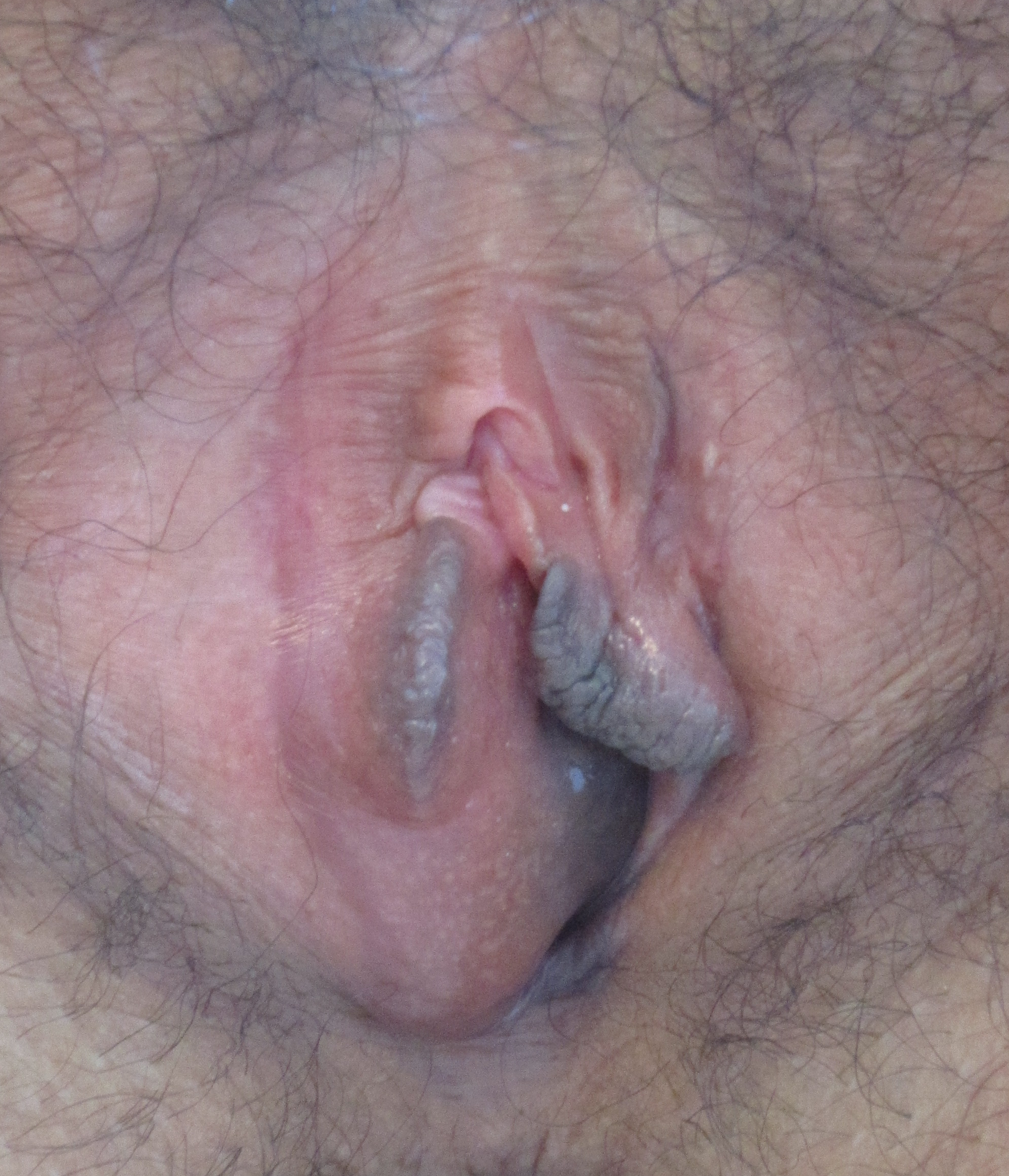 Bartholin's cyst of the right side